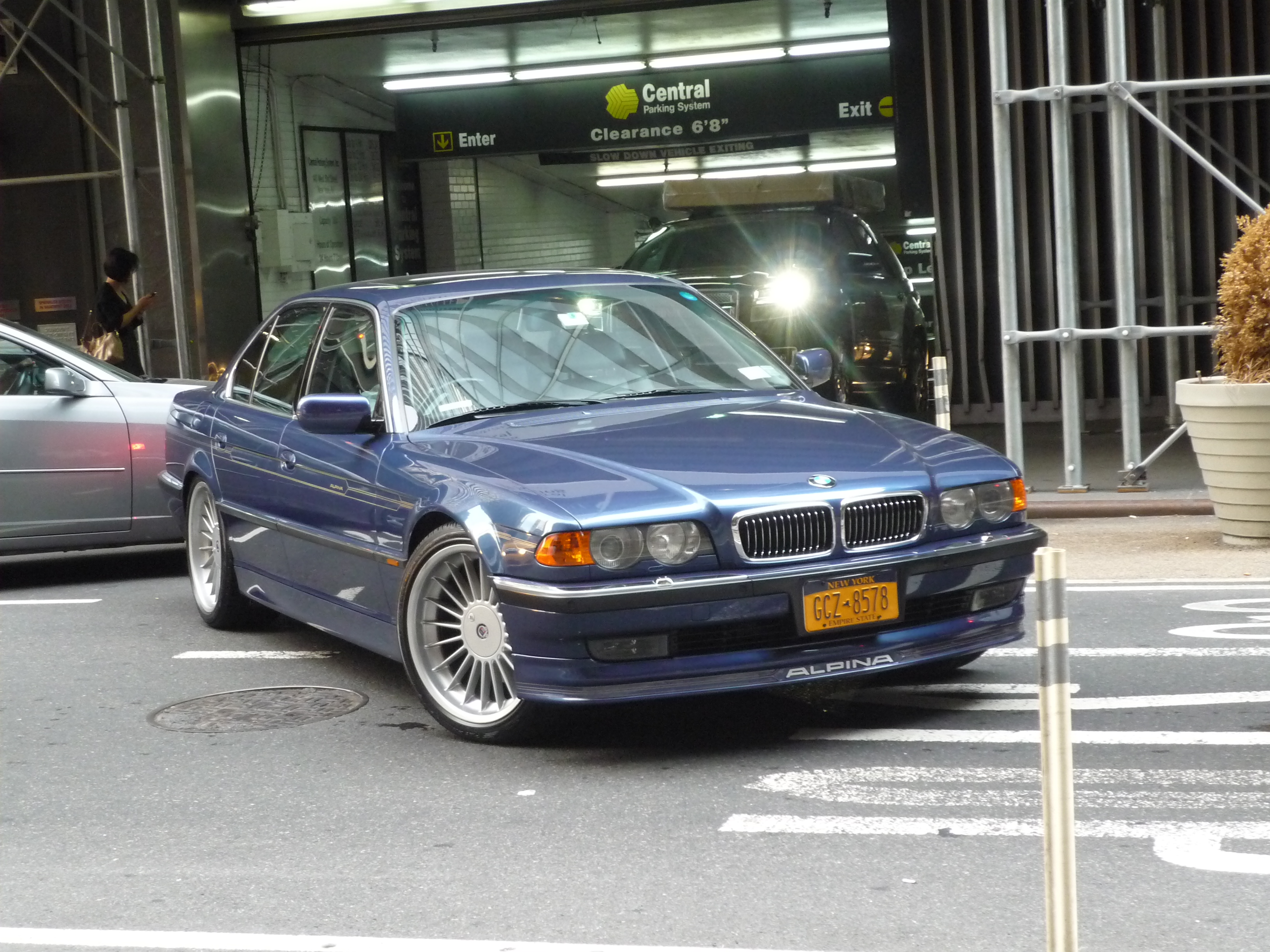 Alpina, a German manufacturer that specializes in the production of modified BMWs, only made about 300 E38 B12s (predecessor of the modern B7) and the model was never officially imported to the USA. That makes this an especially rare sighting, probably the rarest one I’ve ever had the pleasure of experiencing. The placement of the steering wheel on this example indicates that it was probably privately imported from the UK.